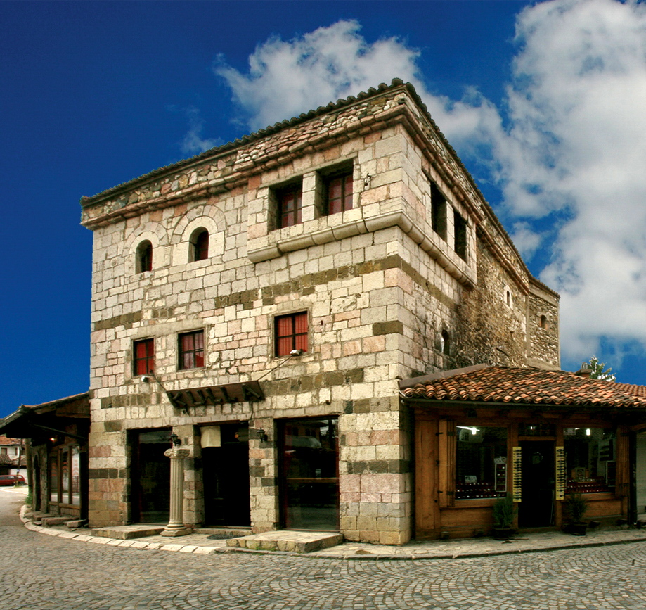 Koshi Tower